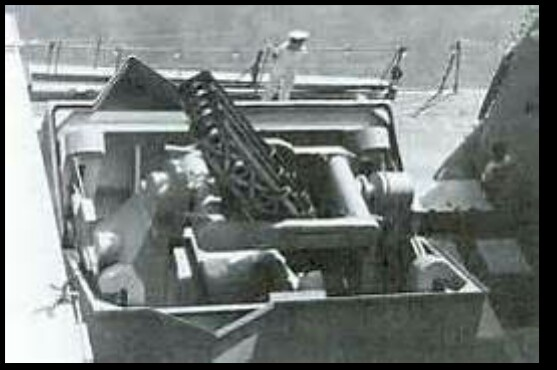 Terne,opening its clam cover.